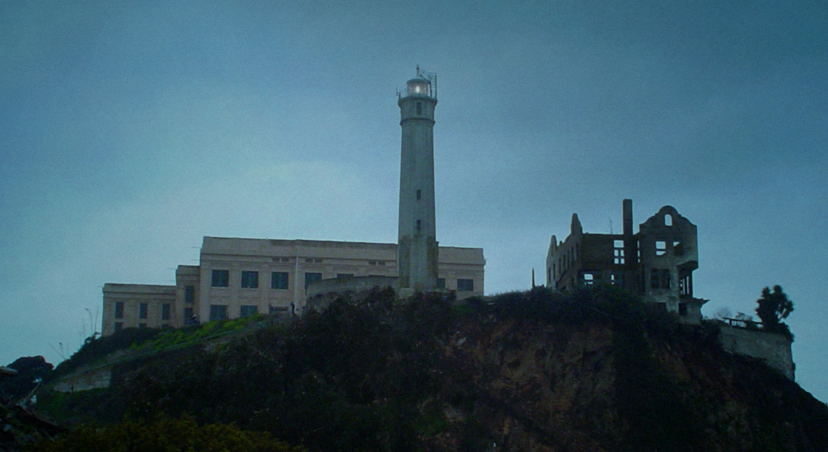 The prison cellhouse, lighthouse, and ruins of the Warden's House on Alcatraz Island in San Francisco Bay, CA.